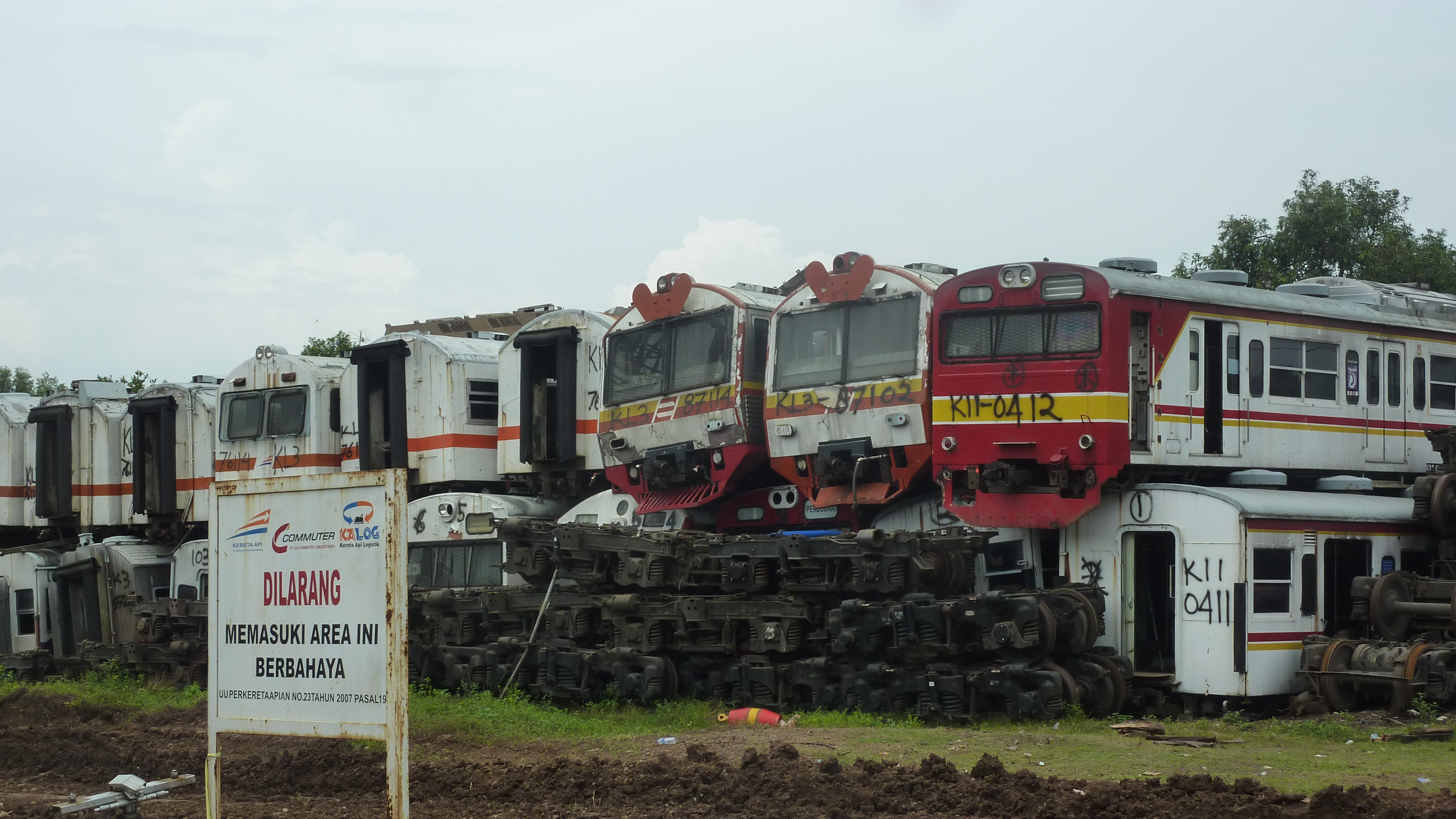 Former JR East Musashino Line sets E22 (in KA Commuter Jabodetabek red livery) and E27 (in JR Central style white livery, hidden behind warning sign) with Indonesian original non AC EMUs type Rheostatic and Hitachi sits in Cikaum Station in Subang Regency in Indonesia, December 2016